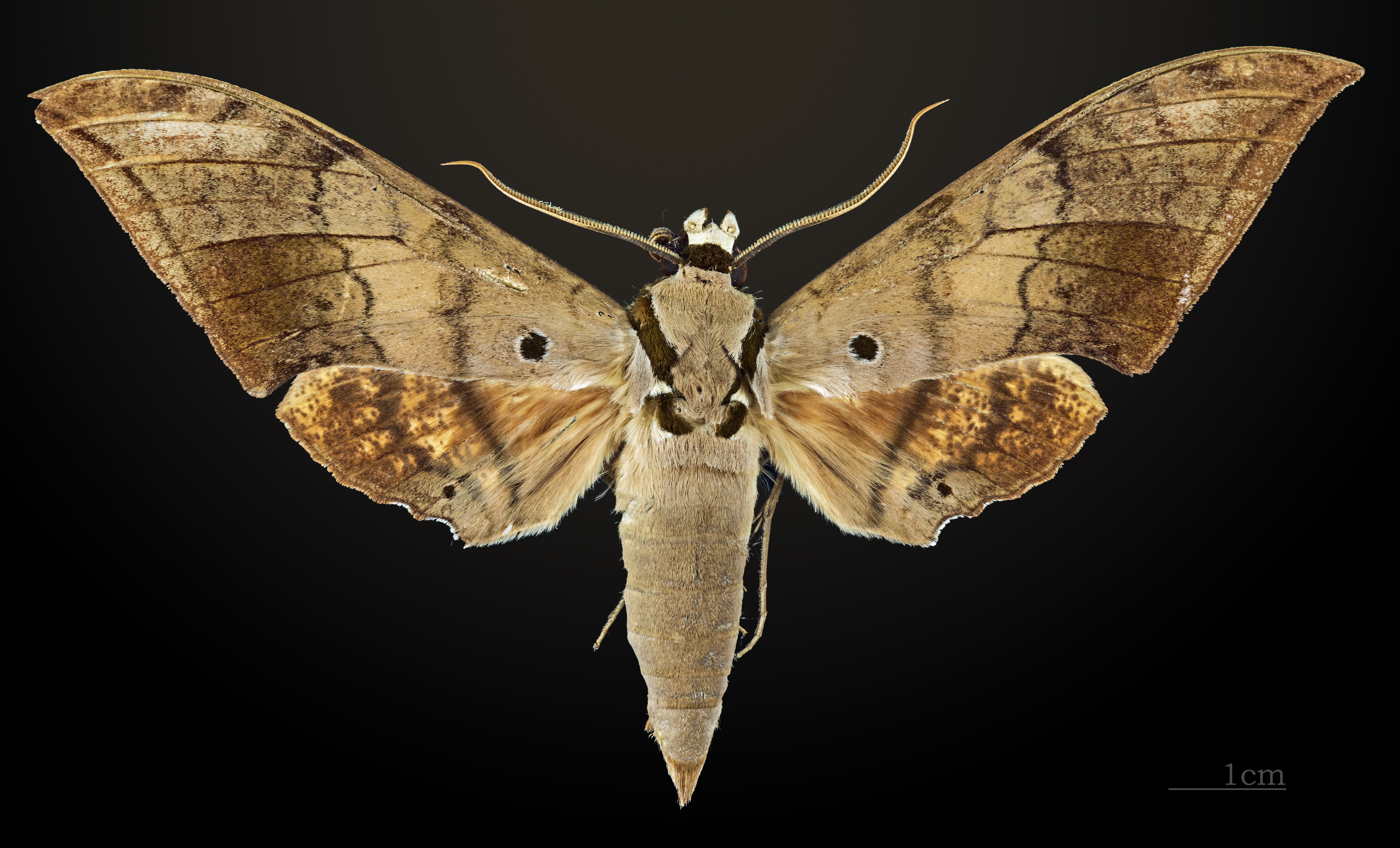 Ambulyx tenimberi - Dorsal side Collection of the Mathematician Laurent Schwartz